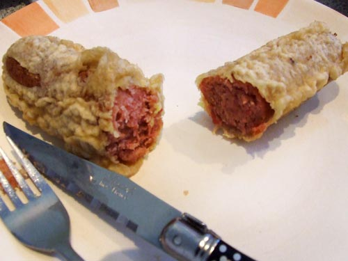 Photo of battered red pudding, found in chip shops in Scotland